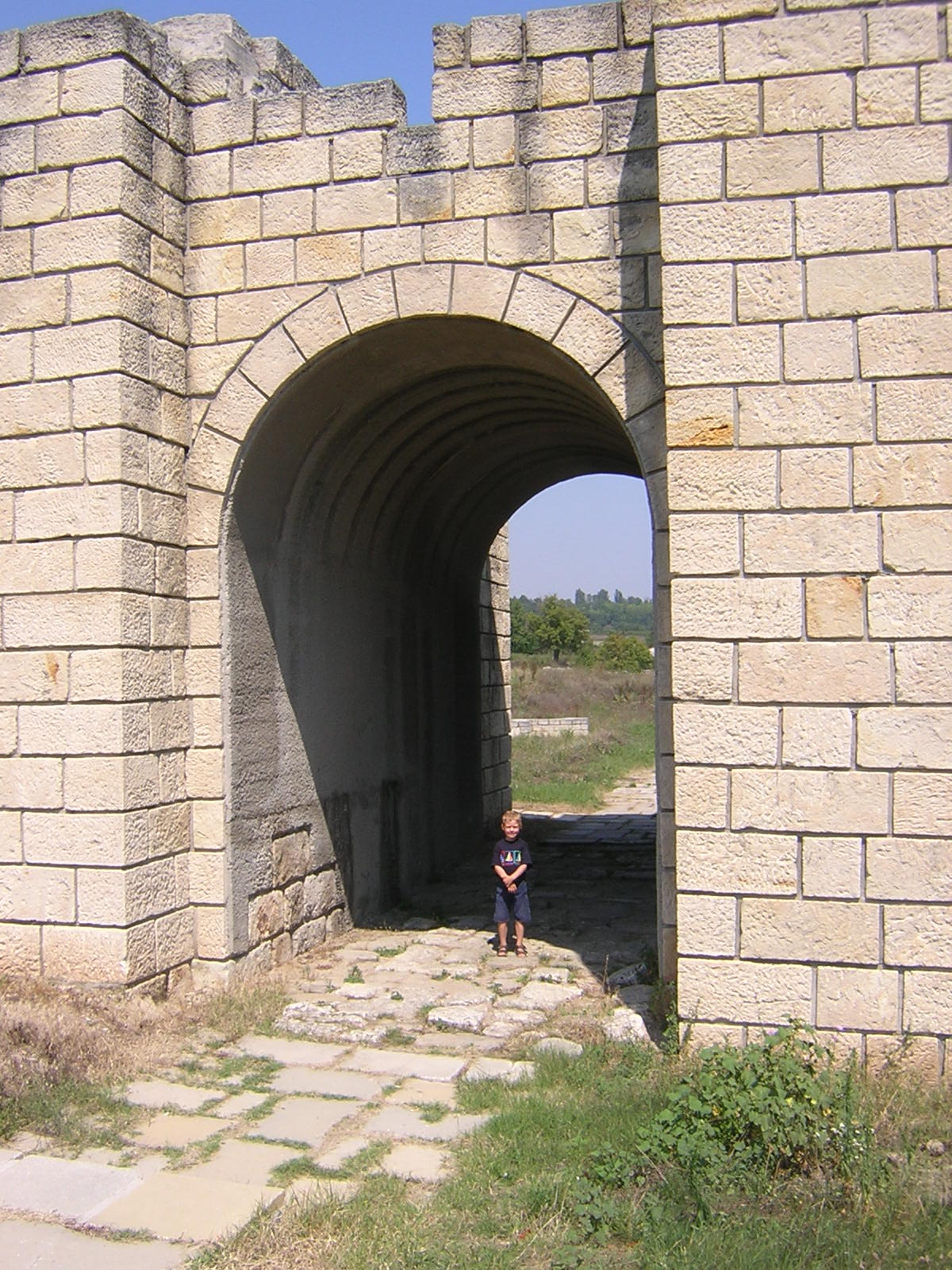 Southern gate (reconstructed) of the inner-town of ancient Preslav, Bulgaria.